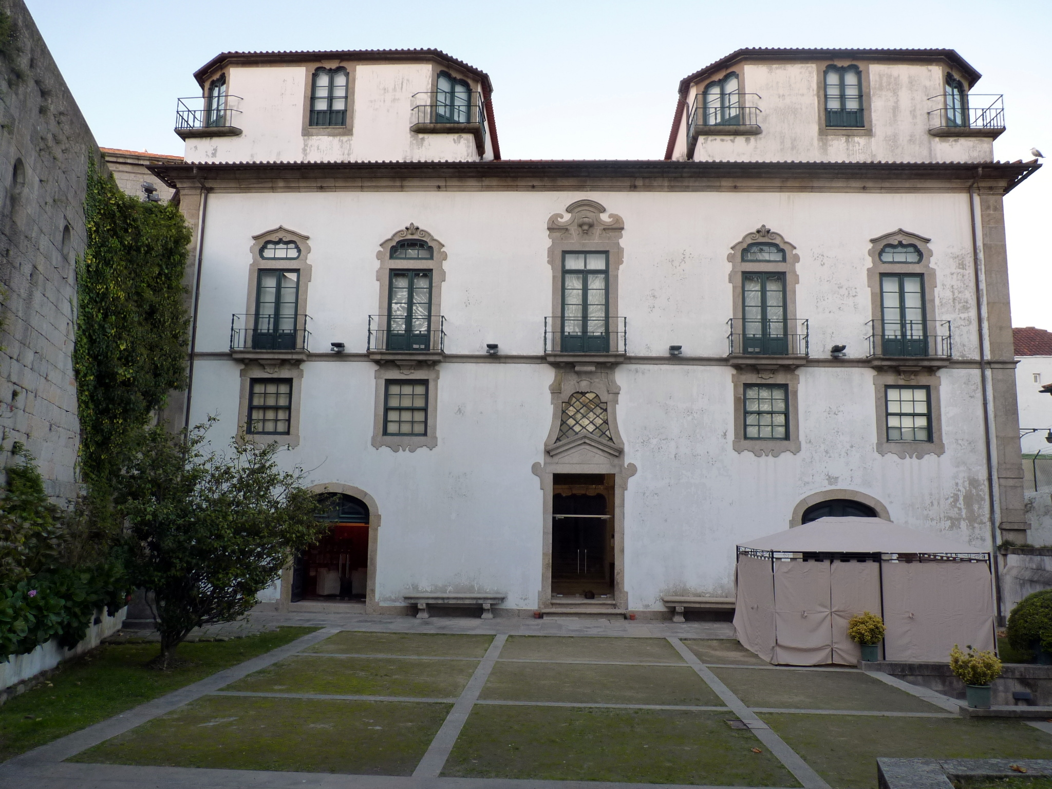 Guerra Junqueiro House and Museum, 30/32 D. Hugo street, Sé, Porto, Portugal